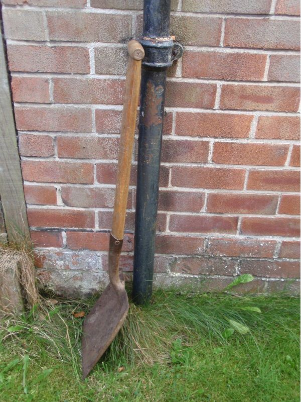 shovel, edge view